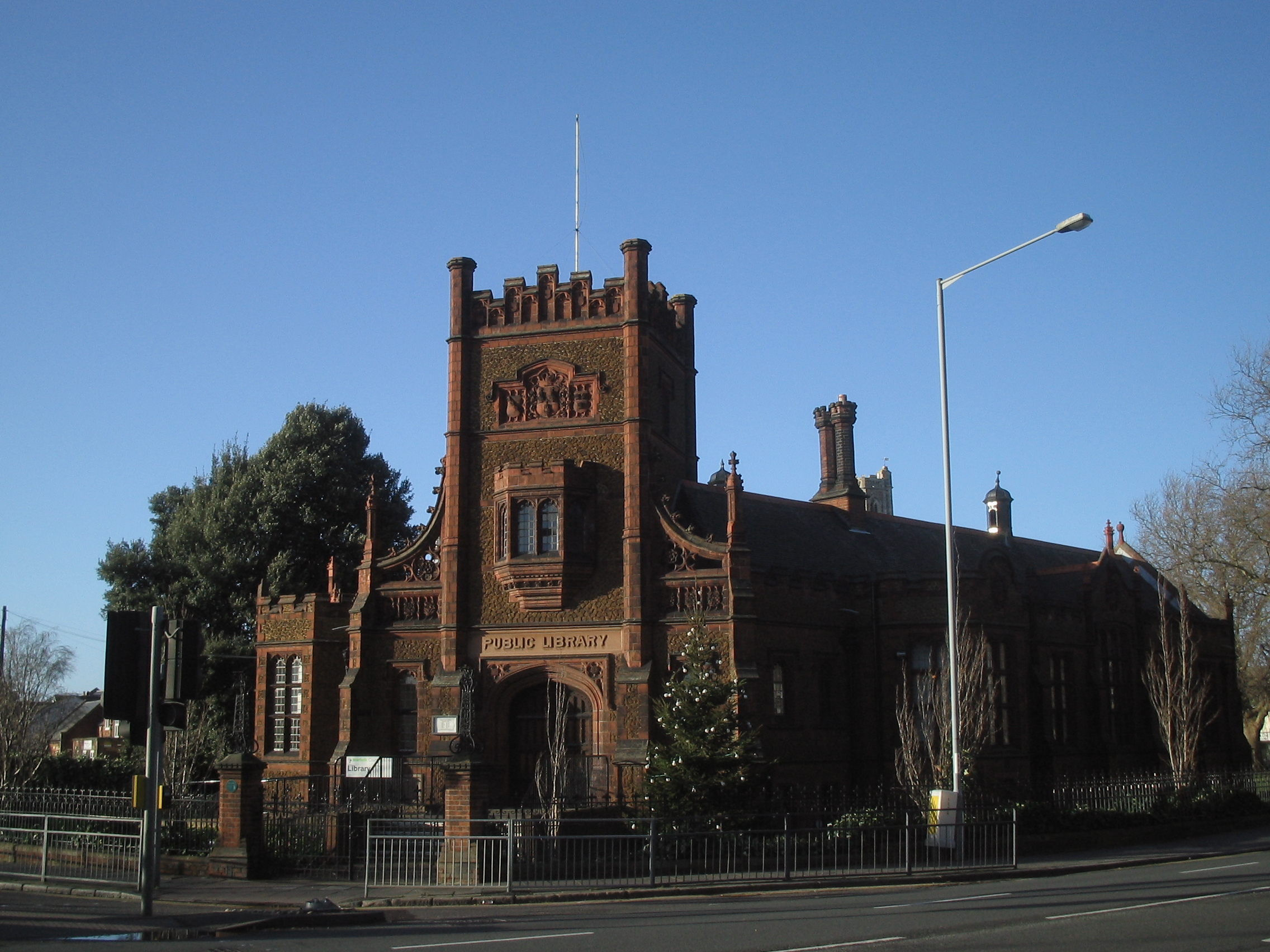 The Library in King's Lynn. The photograph was taken by myself (Ben Dickson) on December 3rd 2006 with a Canon iXus i Digital Camera.